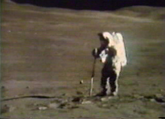 Astronaut Charles Duke extracting a double core at Station 4 on the west slope of Stone Mountain near Cinco crater during Apollo 16 (EVA 2), on the moon.